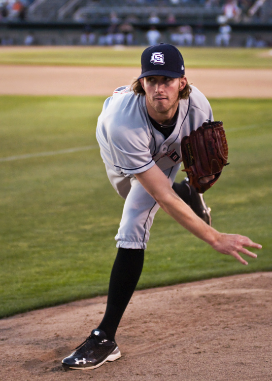 Greg Reynolds pitching for Colorado Springs Sky Sox against Tuscon Padres.